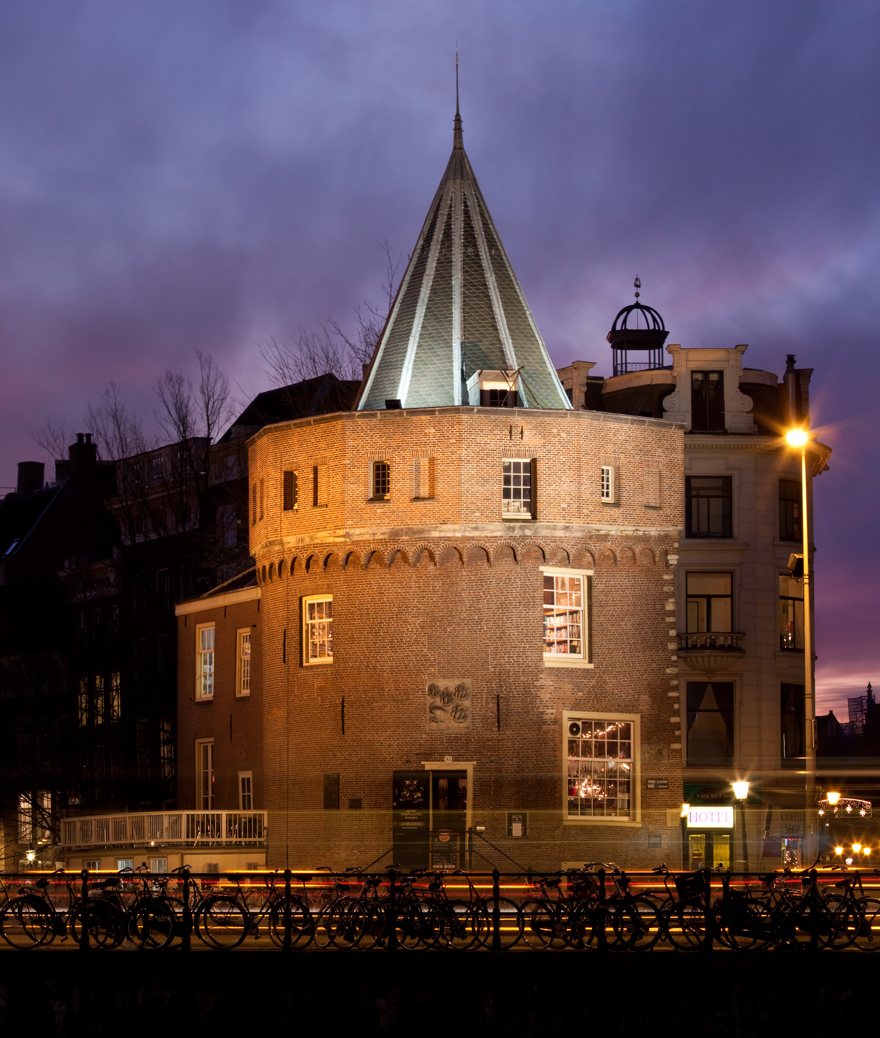 The Schreierstoren, originally part of the medieval city wall of Amsterdam, the Netherlands, was built in the 15th century. It was the location from which Henry Hudson set sail on his journey to Northern America. This expedition would lead to the discovery of the island of Manhattan among others.